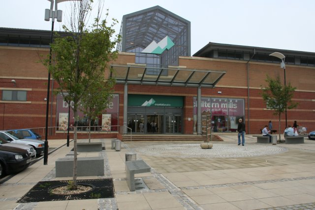 Crystal Peaks Shopping Centre The newly remodelled main entrance of Crystal Peaks Shopping Centre, built to service the needs of the Mosborough Townships on the south-east side of Sheffield. the remodelling involved a relocation of Sainsburys into the area created by the demolished multiplex cinema and relocated Amraaj Indian Restaurant. The area vacated by Sainsburys is being remodelled into a new mall area.